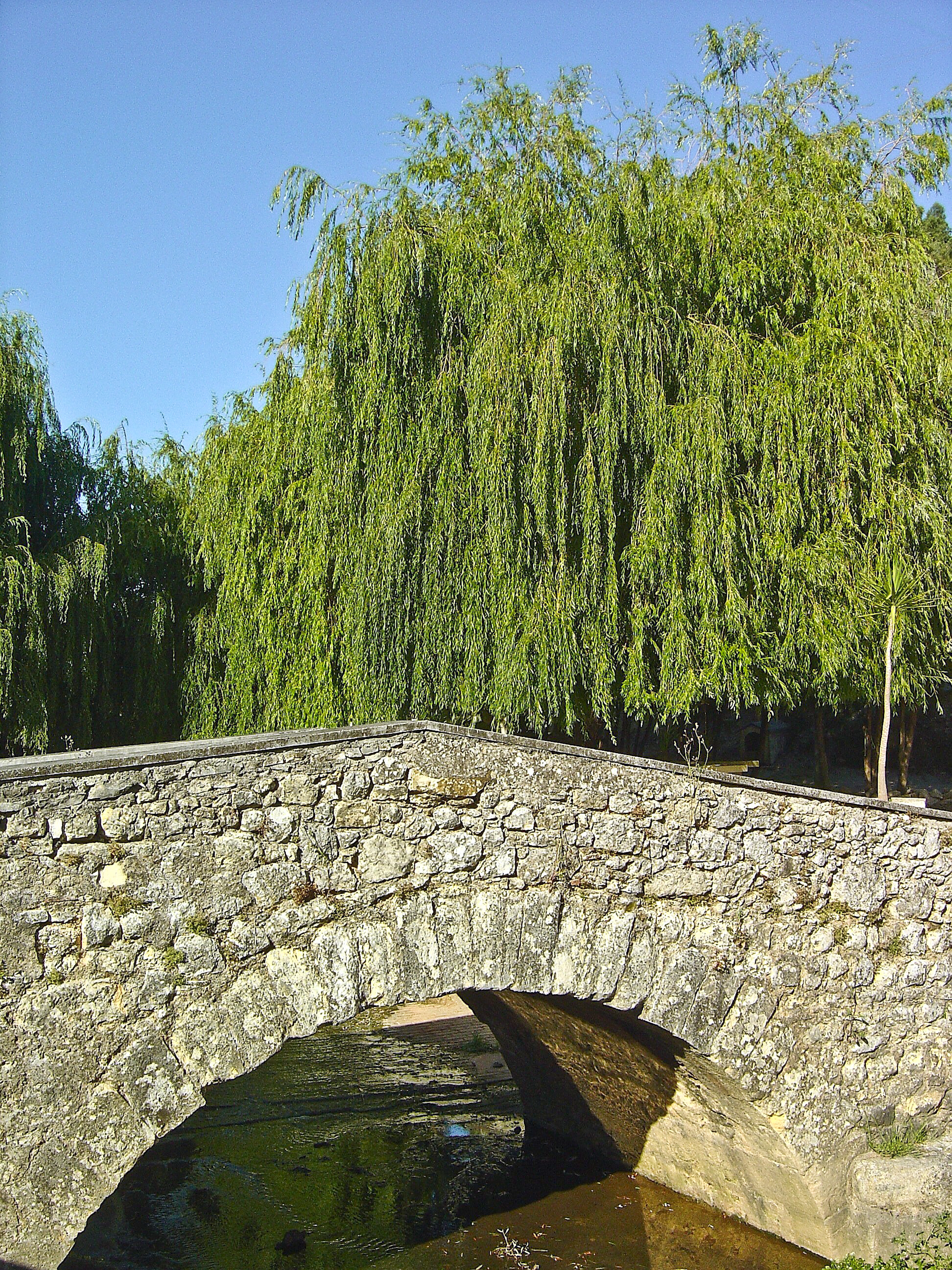 See where this picture was taken. [?]